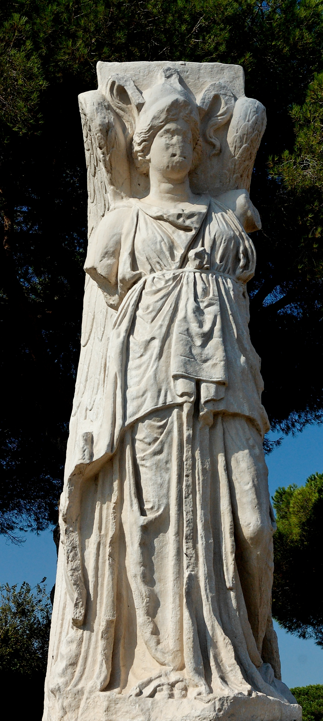 Modern copy of the statue of a winged goddess, usually recognized as a Minerva Victrix. Marble, Roman copy of the Domitian or Hadrian era after a Greek original. H. 2.4 m (94 ¼ in.), W. 0.8 m (31 ¼ in.), D. 0.95 m (37 ¼ in.). From the Temple of Jupiter in Ostia Antica.